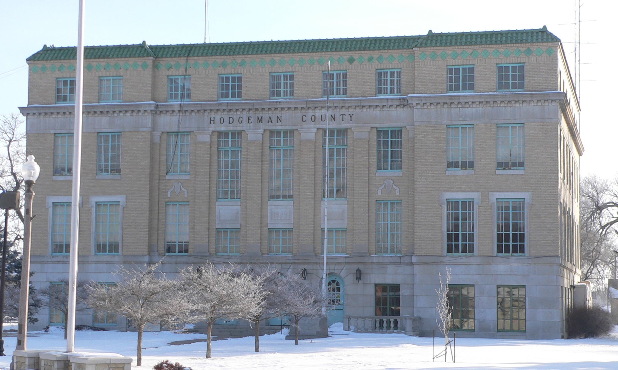 Hodgeman County Courthouse in Jetmore, Kansas; seen from the west. The building was designed in Renaissance style by architects Routledge & Hertz, and built in 1929. It is listed in the National Register of Historic Places.